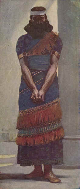 Haggai, the Biblical prophet, watercolor circa 1896–1902 by James Tissot